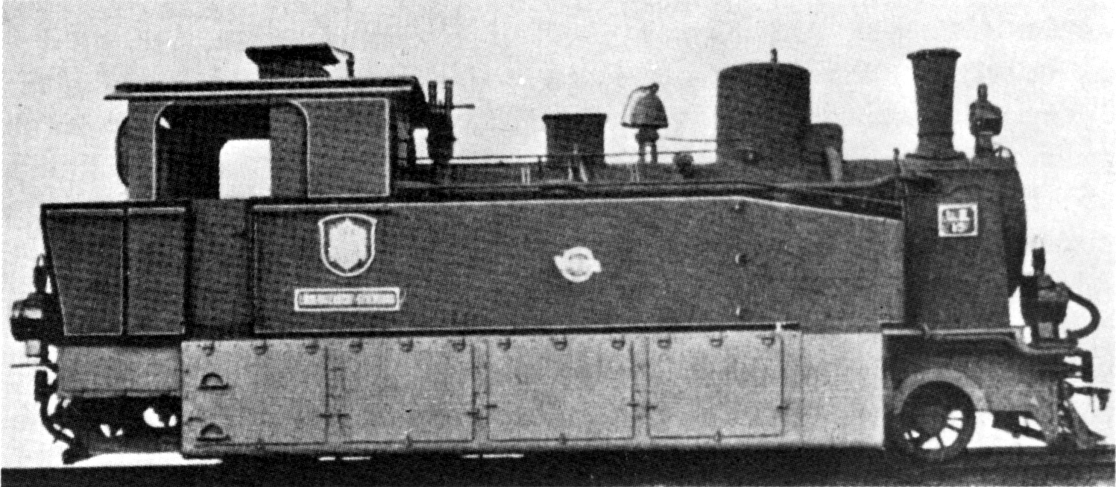 South African Eight-Coupled Tank (2-8-0T), ex German South West Africa